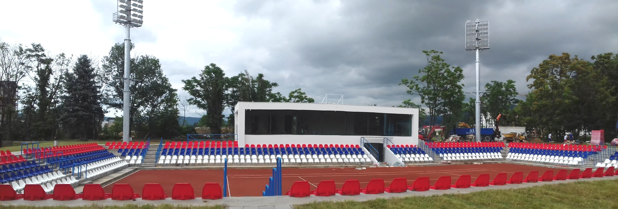 Tennis court in Banja Luka, Republic Srpska, BiH. It built for Adria tour